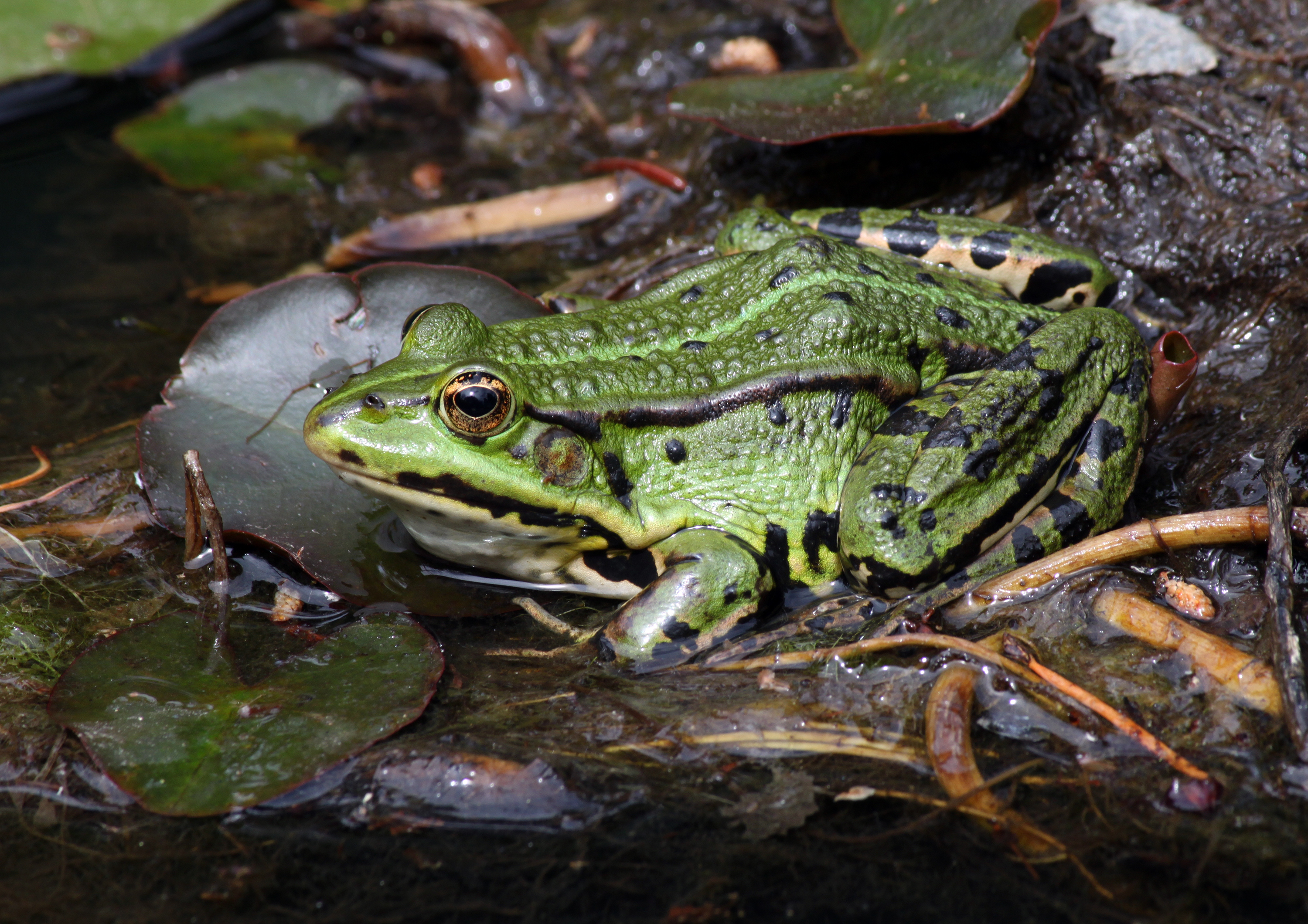 Edible Frog, Pelophylax esculentus (scientific notation: Pelophylax "esculentus") or Rana "esculenta", Family: Ranidae, Location: Germany, Beiningen